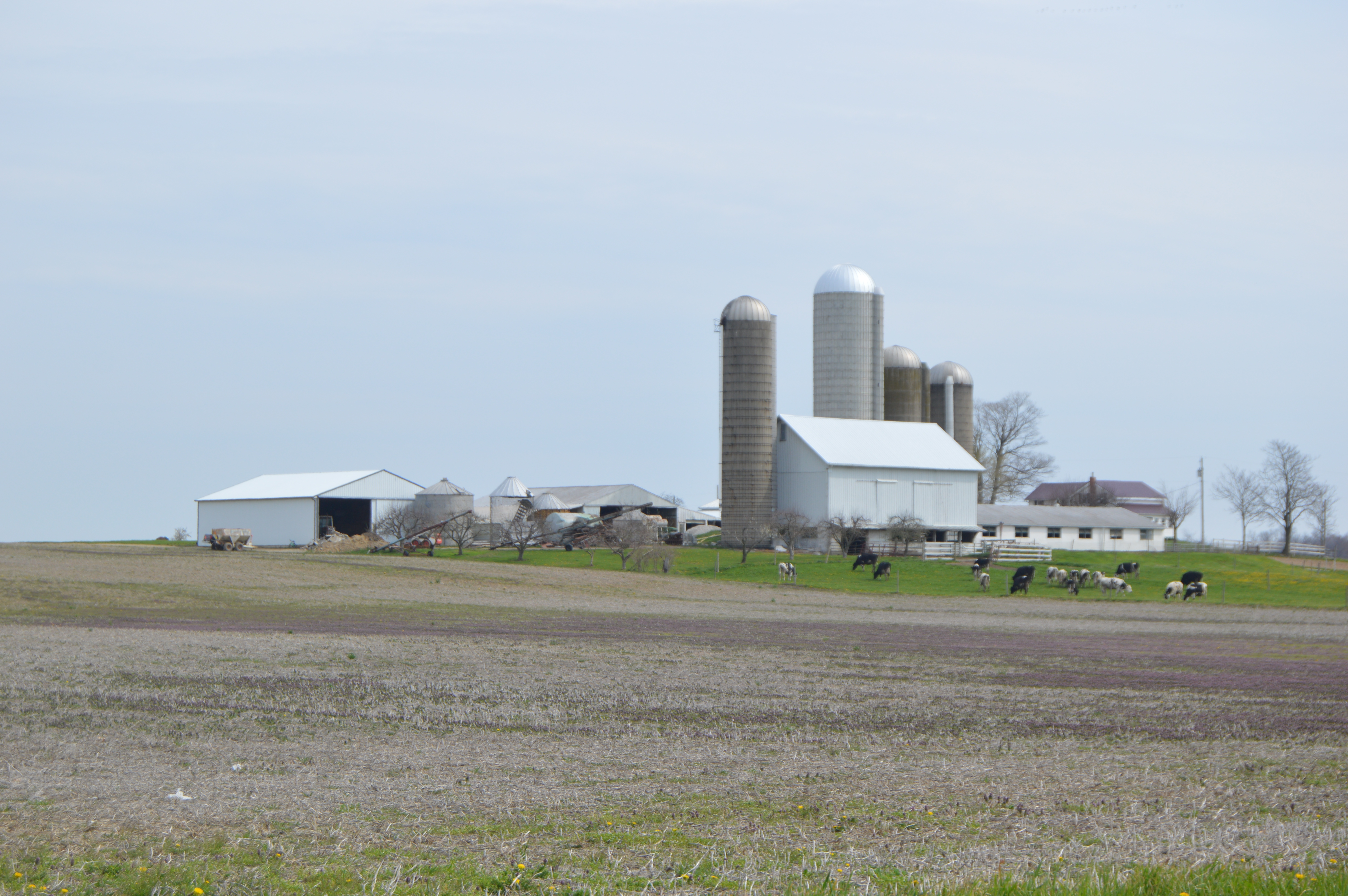 A stubble field and farmstead on the northern side of Lattimer Road just east of the State Route 603 intersection in Blooming Grove Township, Richland County, Ohio, United States.